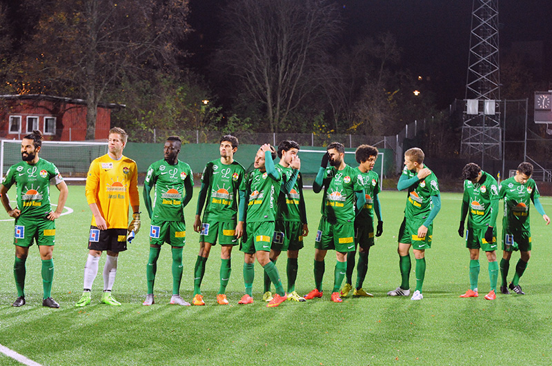 Dalkurds FF